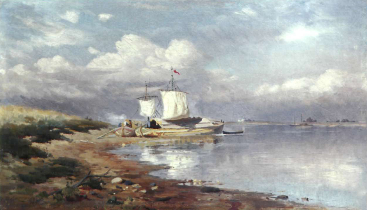 Landscape with barges (painting by Fyodor Vaslyev, 1869)